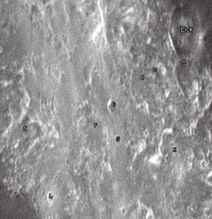 Lick lunar crater as seen from Earth with satellite craters labeled